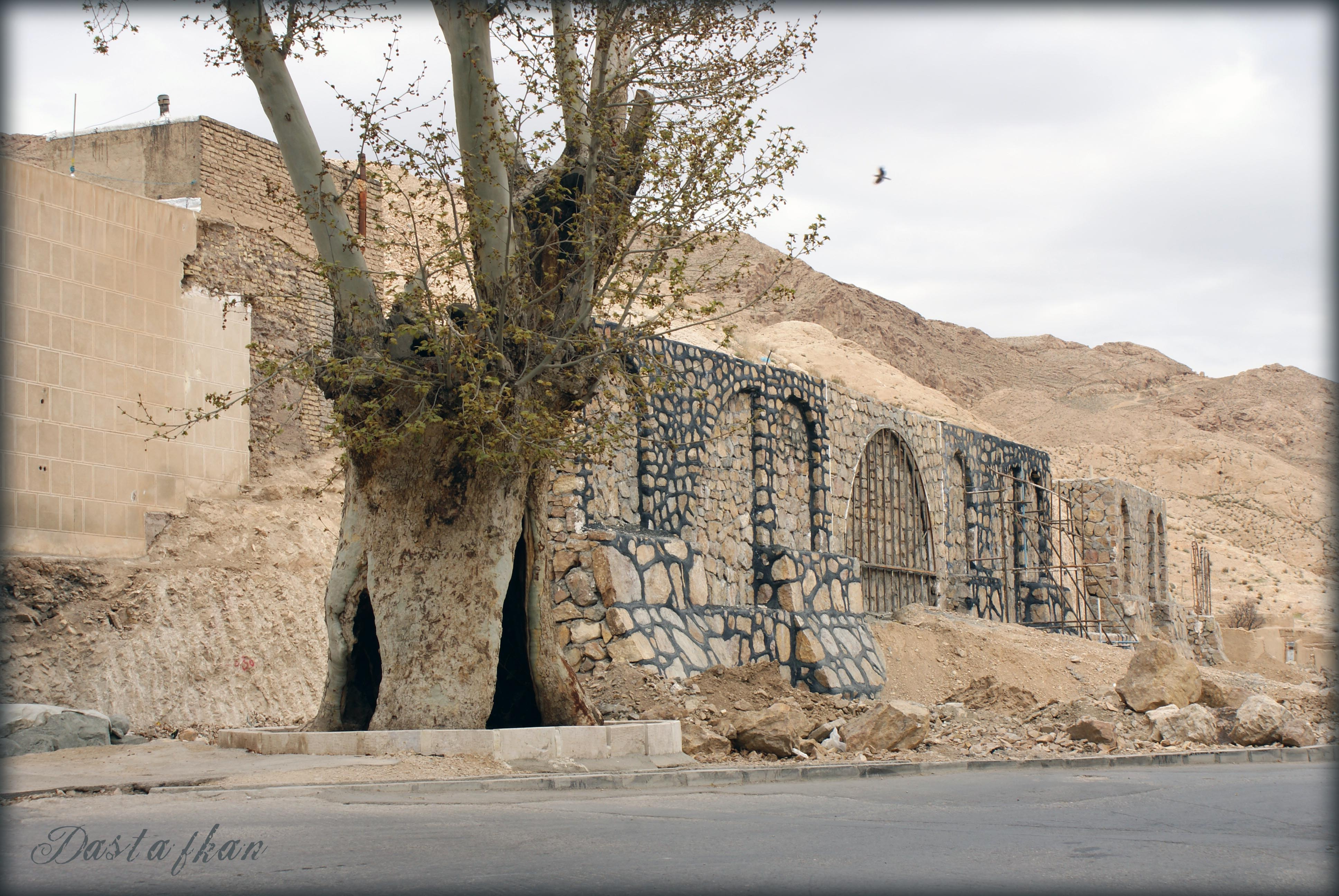 AMAZING TREE IN SHAHROOD